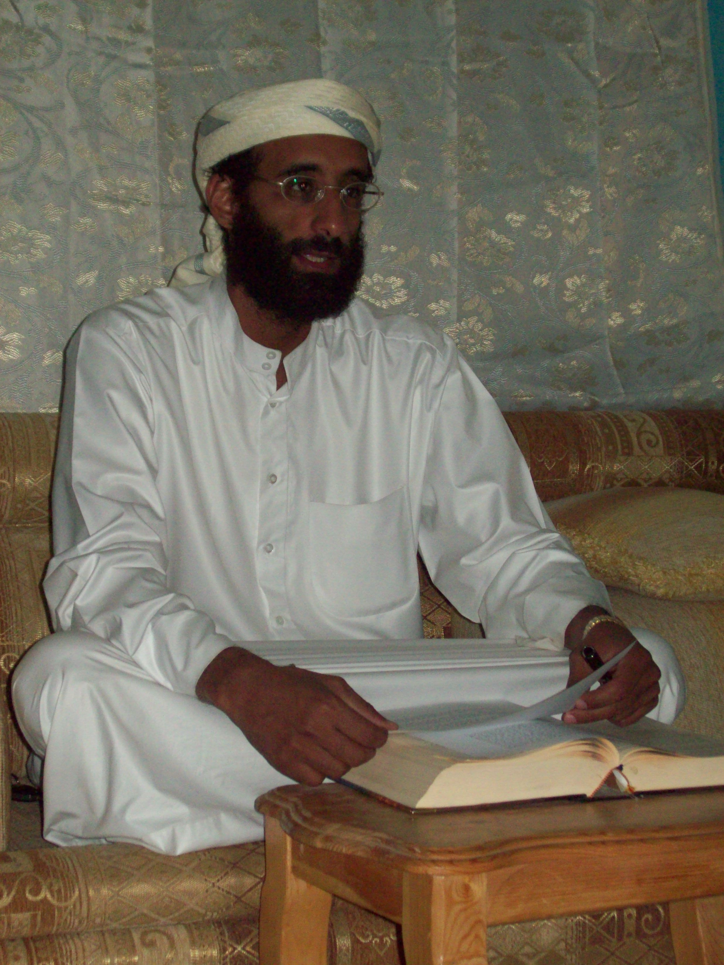 Imam Anwar al-Awlaki in Yemen October 2008, taken by Muhammad ud-Deen.